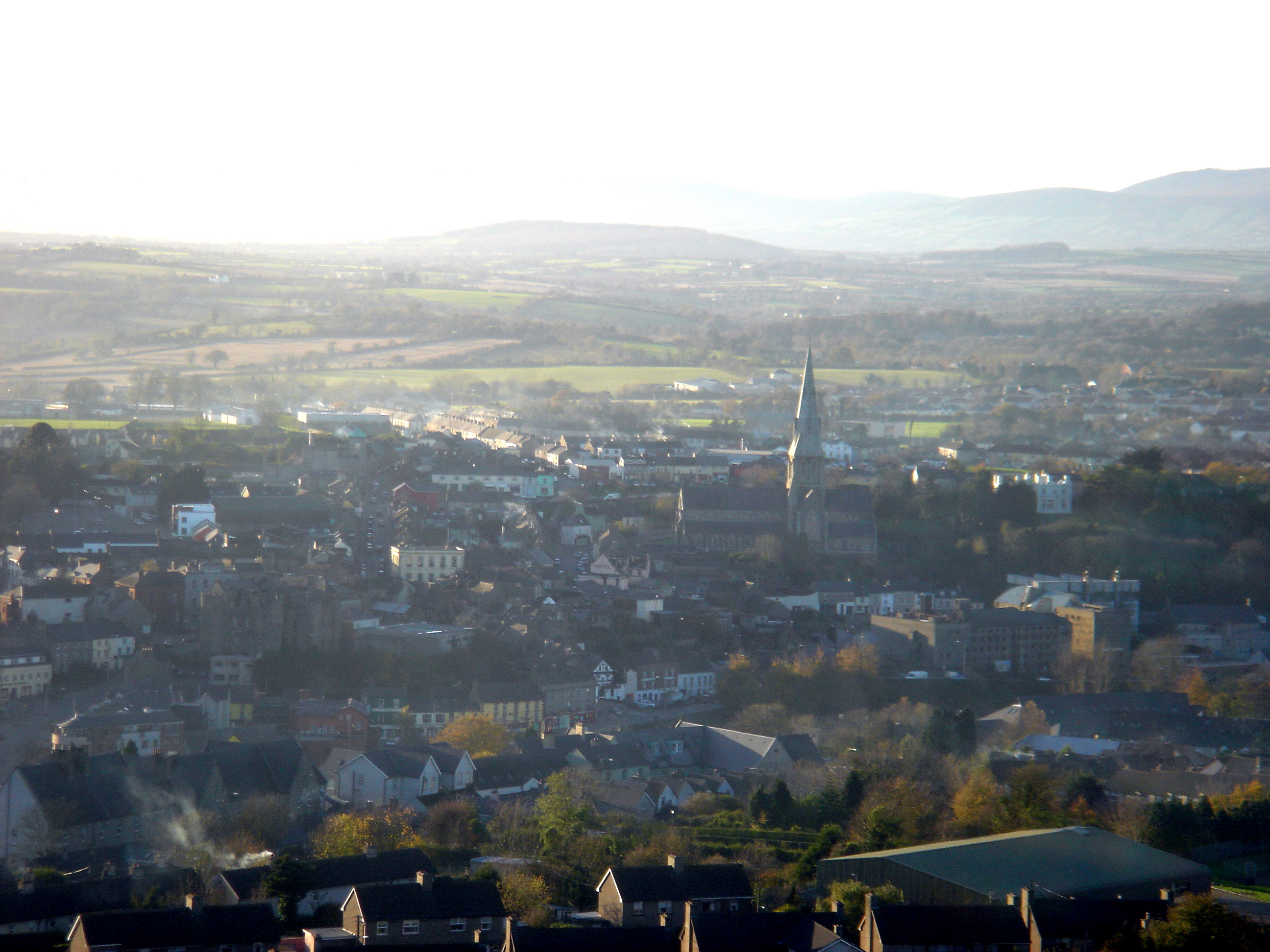 Enniscorthy in Winter, from Vinegar Hill